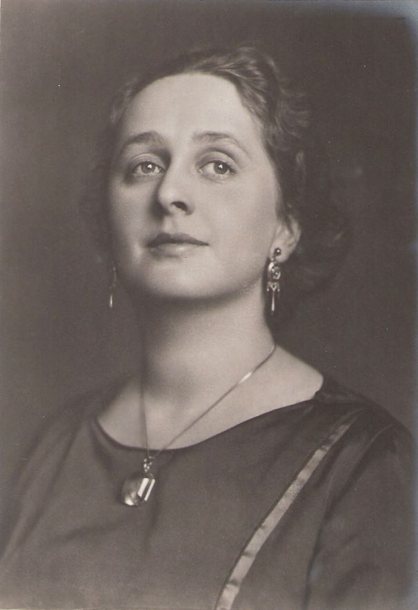 Swedish card of Lili Bech.